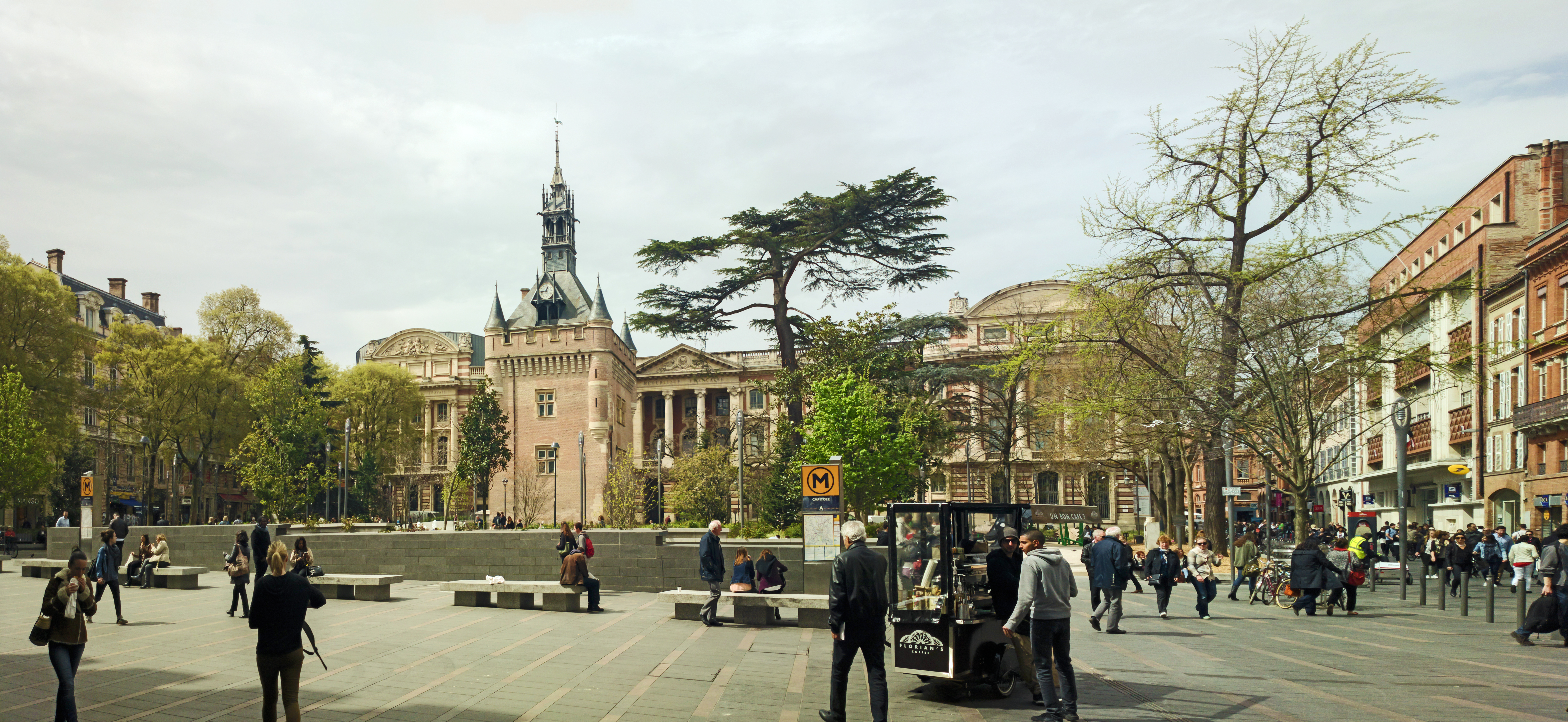 Rue d'Alsace-Lorraine in Toulouse. View with square Charles-de-Gaulle and le Capitole back side.